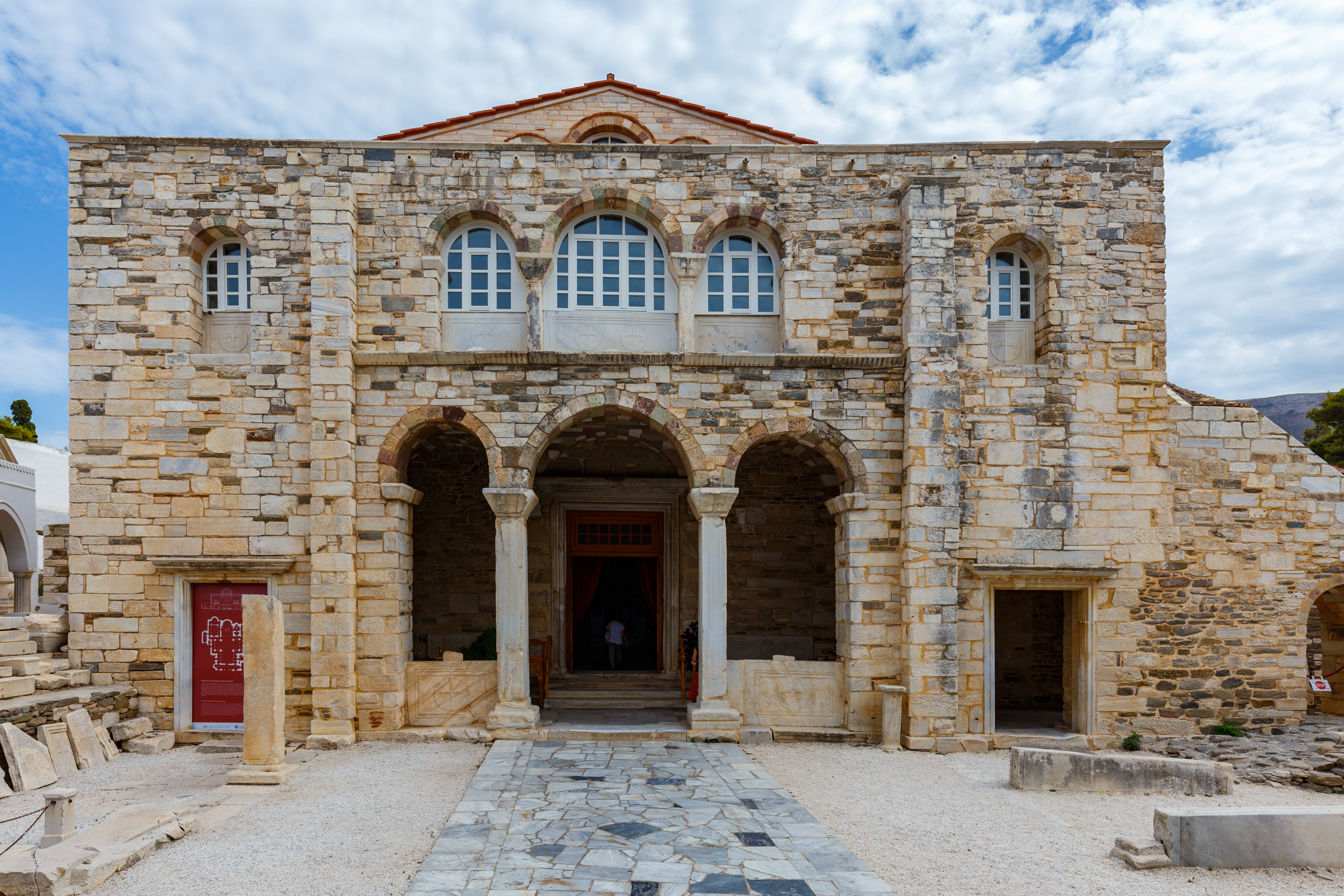 Panagia Ekatontapiliani «Εκατονταπυλιανή Πάρου»